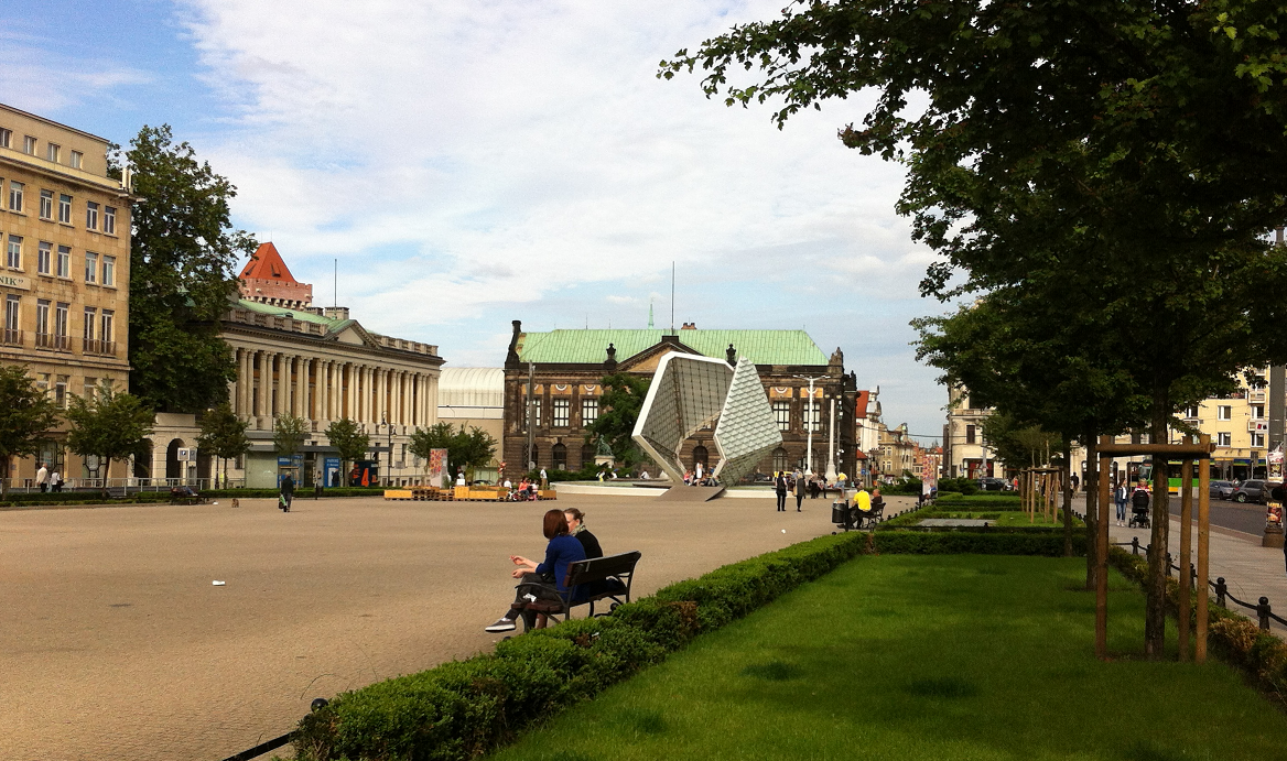 Fountain on Plac Wolności in Poznań